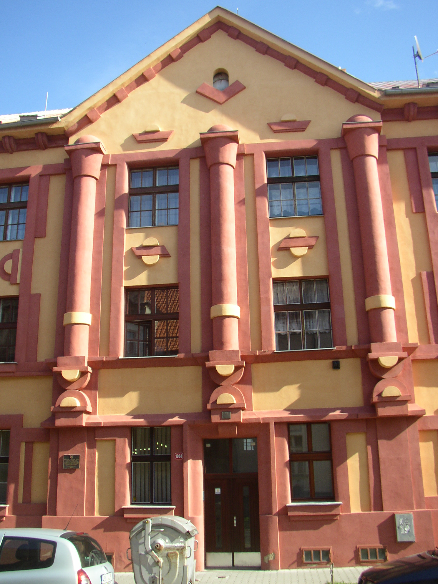 Blocks of flats (1967, 1968 and 1969 Marold Street) in Kladno, Kladno District, Central Bohemian Region, Czech Republic. Designed by Václav Košař and Jan Pilař, built in 1922-23. Listed Cultural Monument of the Czech Republic.